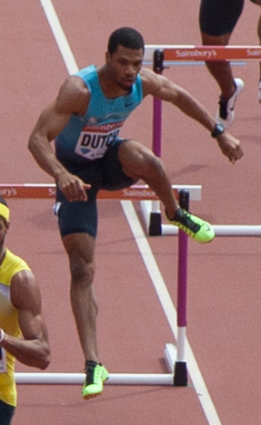 Johnny Dutch at Sainsbury's Anniversary Games